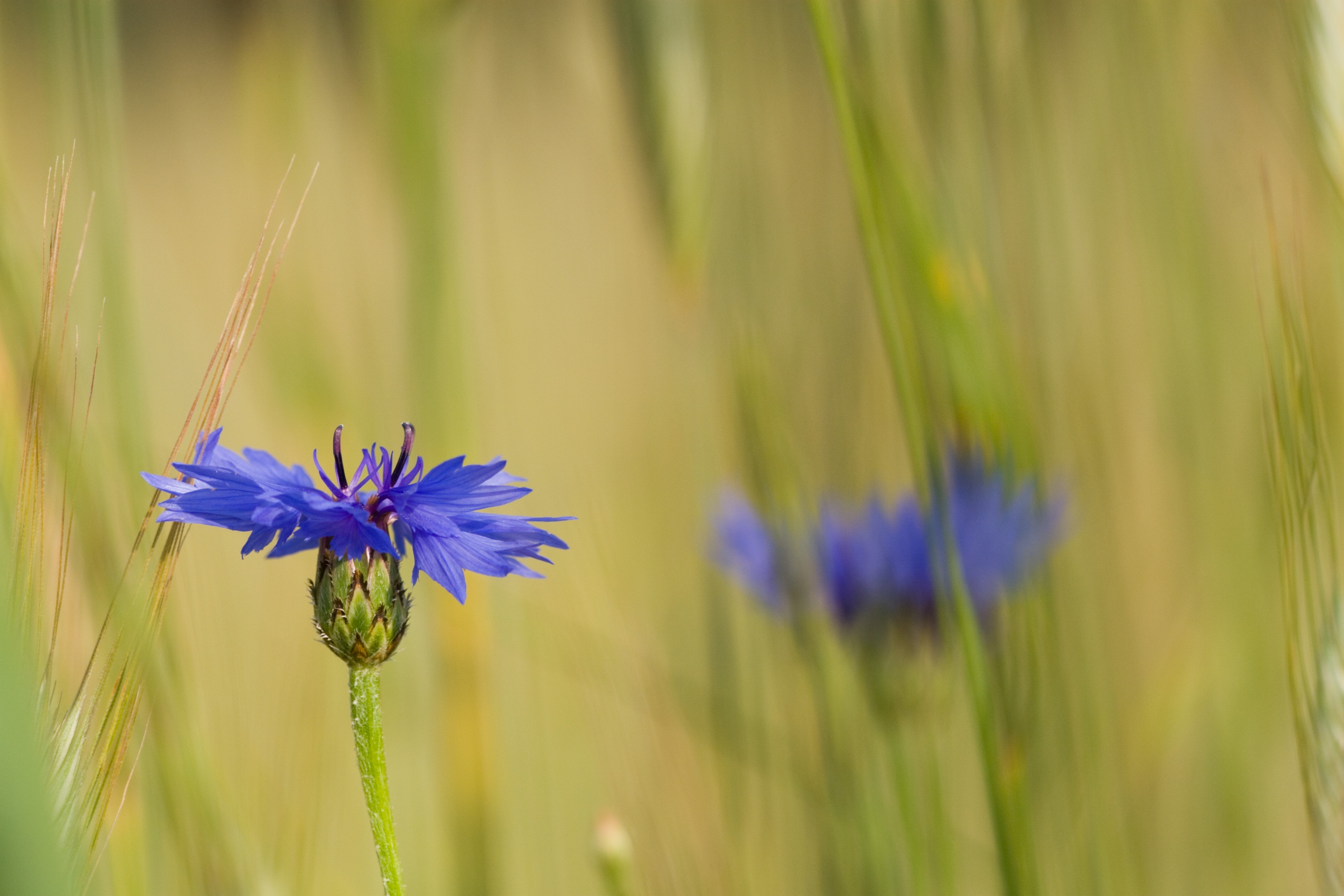 Centaurea cyanus in Haanja Nature Park at Estonia.